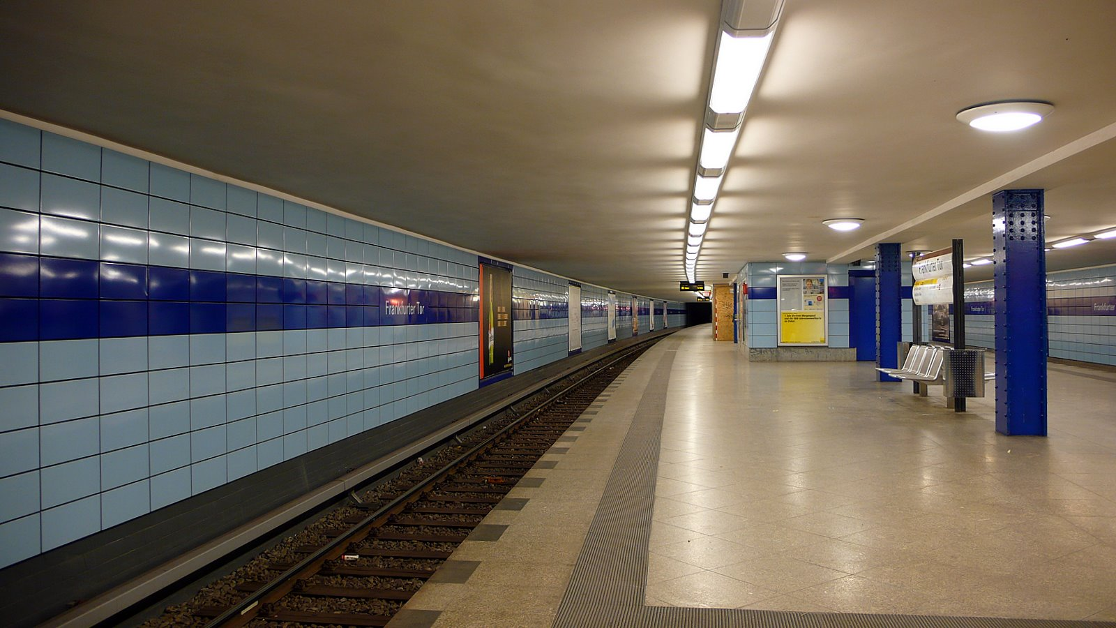 Subway frankf Tor